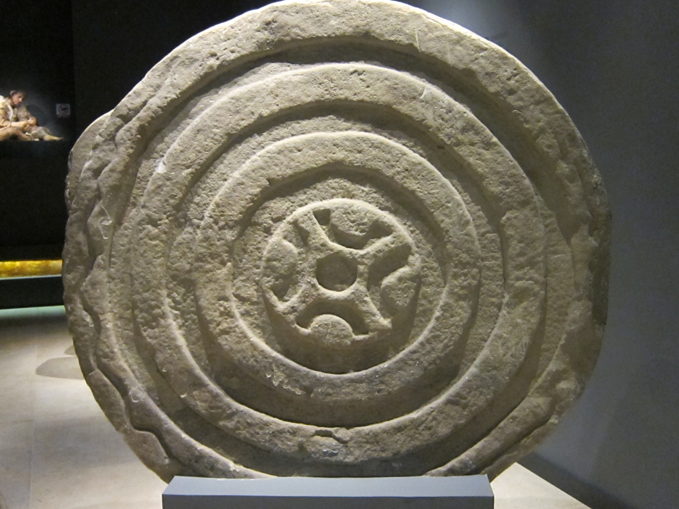 Museum of Prehistory and Archaeology of Cantabria. Obverse of the second stele from Lombera (Cantabria).